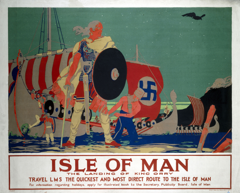 An image of a London, Midland and Scottish Railway travel-poster dating to the 1920s. The caption reads: "The Landing of King Orry. Travel LMS the quickest and most direct route to the Isle of Man. For information regarding holidays apply for illustrated book to the Secretary, Publicity Board, Isle of Man".